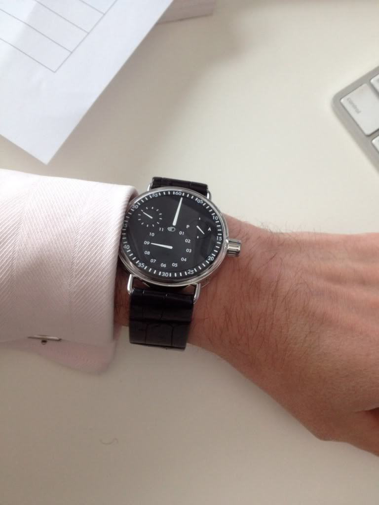 Ressence ZeroSeries model #1001